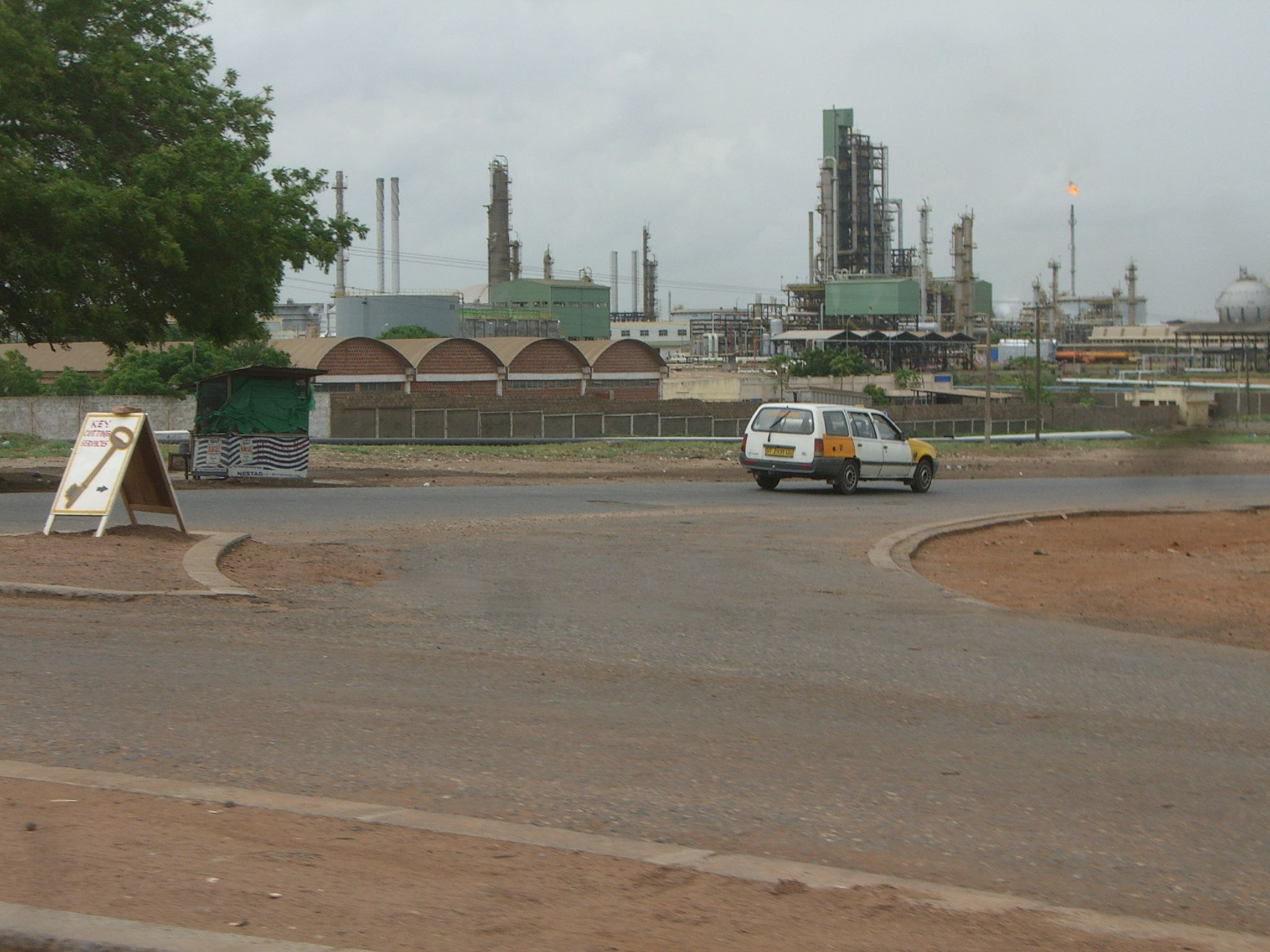 Petroleum Plant and Natural Gas-Fired Power Plant with Road in Tema, Greater Accra Region, Ghana.